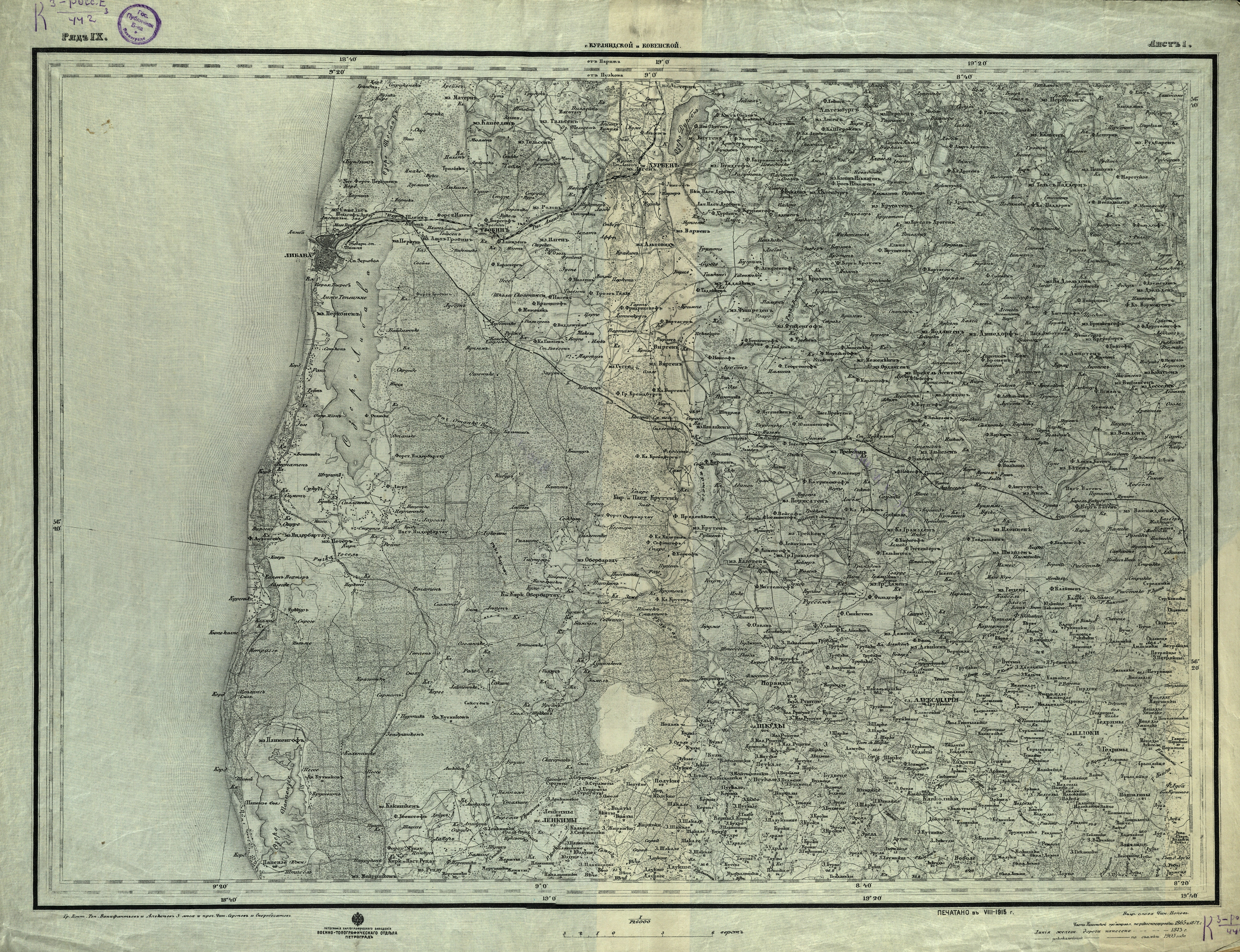 "Shubert's map". Fragment of topographic map of Russian Empire. 3 versta in inch (1260 m in 1 cm).